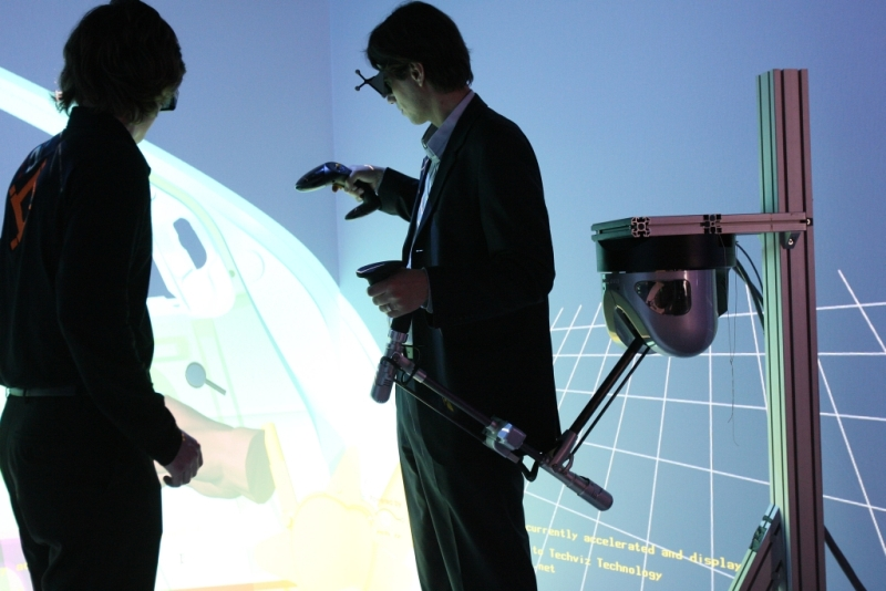 Interactive Virtual Reality in CAVE with optical Tracking for assemby simulation with realtime collision detection